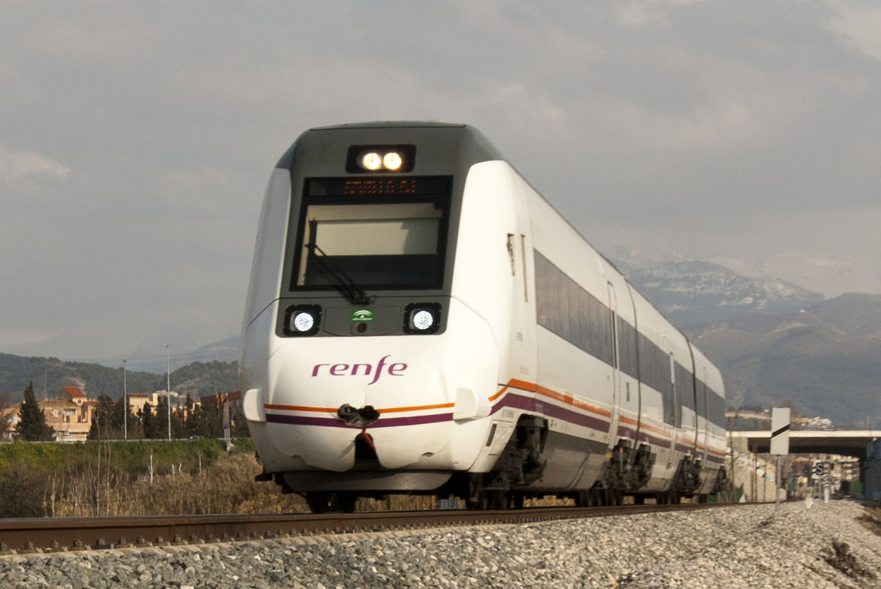 Renfe S599 train in a Media Distancia service between Almería and Sevilla-Santa Justa, just after departing Grenade.